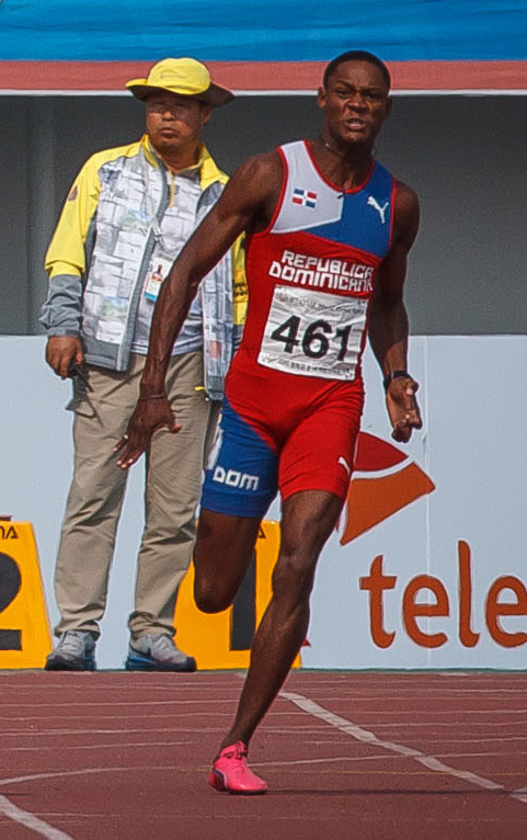 Yancarlos Martínez at the 2015 Military World Games. Foto: Sgt Johnson Barros